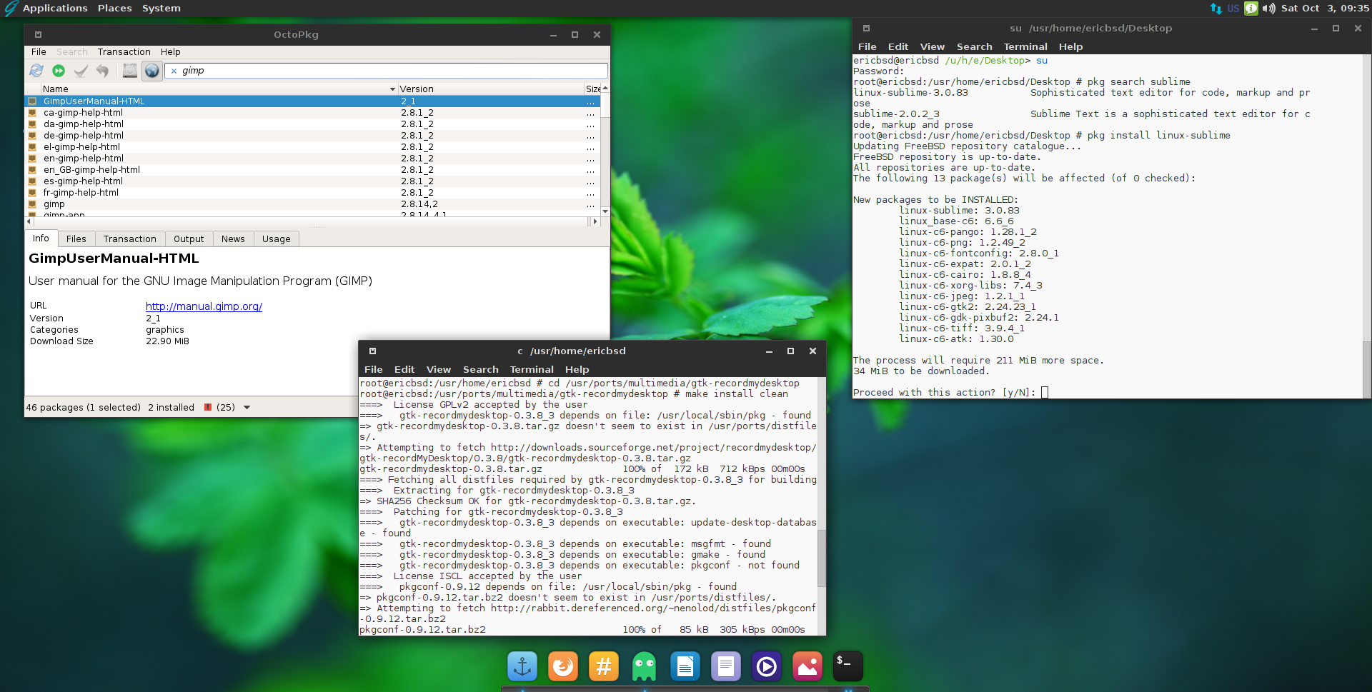 GhostBSD 10.1 with MATE desktop environment